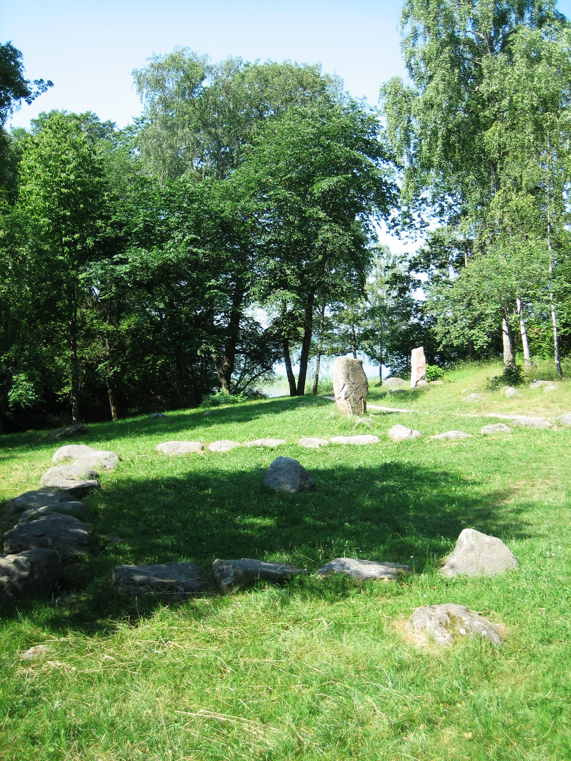 Arkils tingstad, a viking age "tingsplats" in Täby kommun, Sweden.